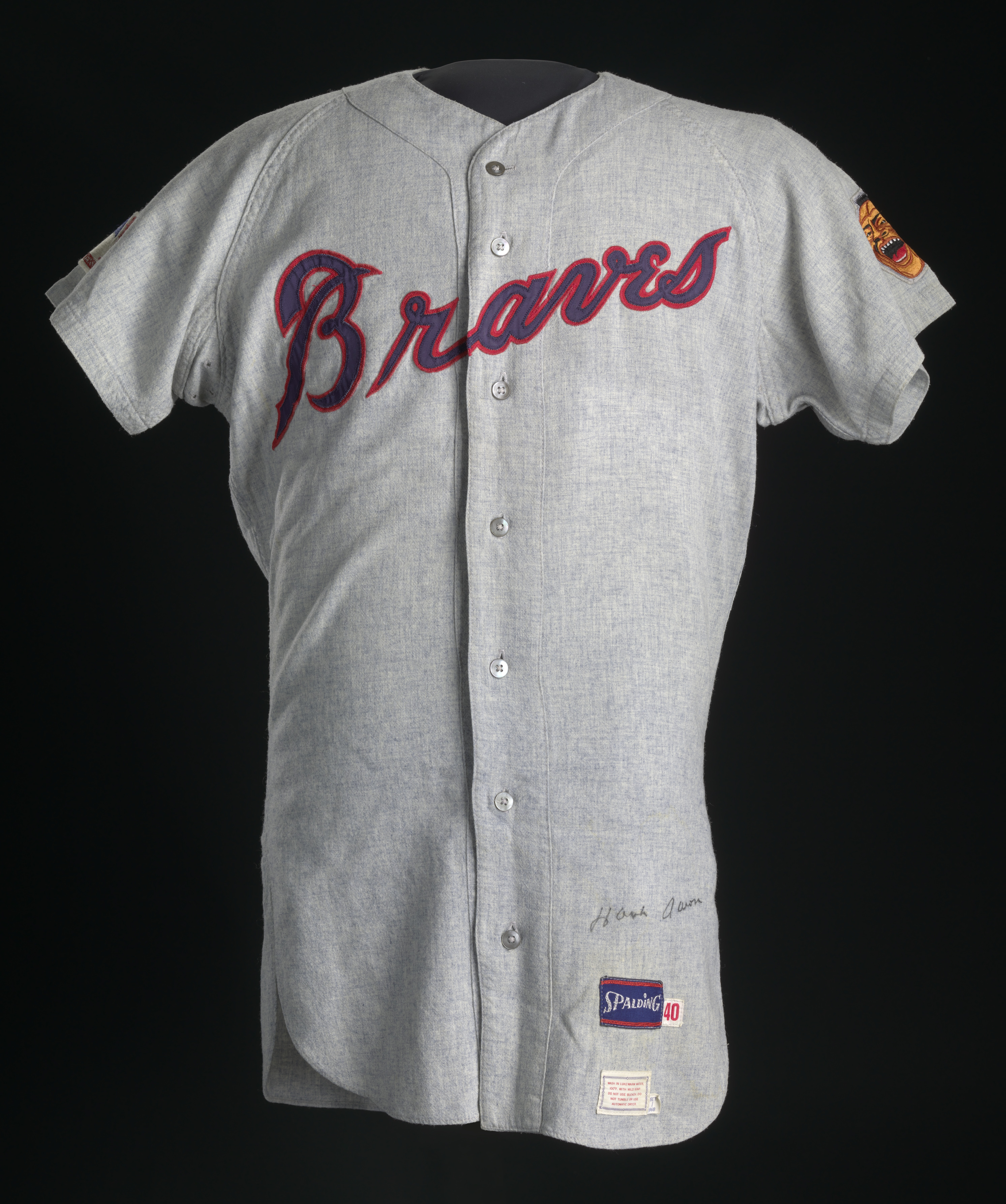 Atlanta Braves "away" or "road" jersey worn by Hank Aaron during the 1968 or 1969 MLB season. Jersey is grey in color with blue and red stitched type on front and back. Type on front chest area reads, [Braves]. Type on back reads, [44]. Patch on PR sleeve features an MLB logo with red type that reads, [100th ANNIVERSARY]. Patch on PL sleeve features a caricatured illustration of a Native American's face. Hank Aaron autograph in lower portion of jersey's front. Next to signature are several labels including a Spalding label and a size "40" label. Label with blue ink on inside of neckline reads, [44 40 68].